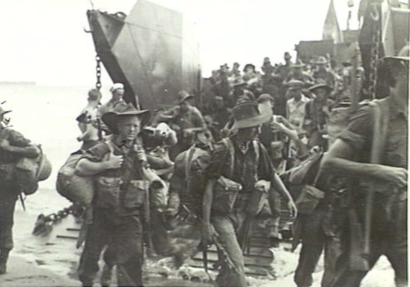 Troops from the Australian 26th Battalion landing on Bougainville February 1945